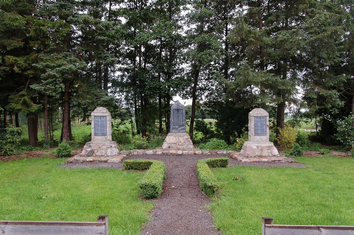 Pictures